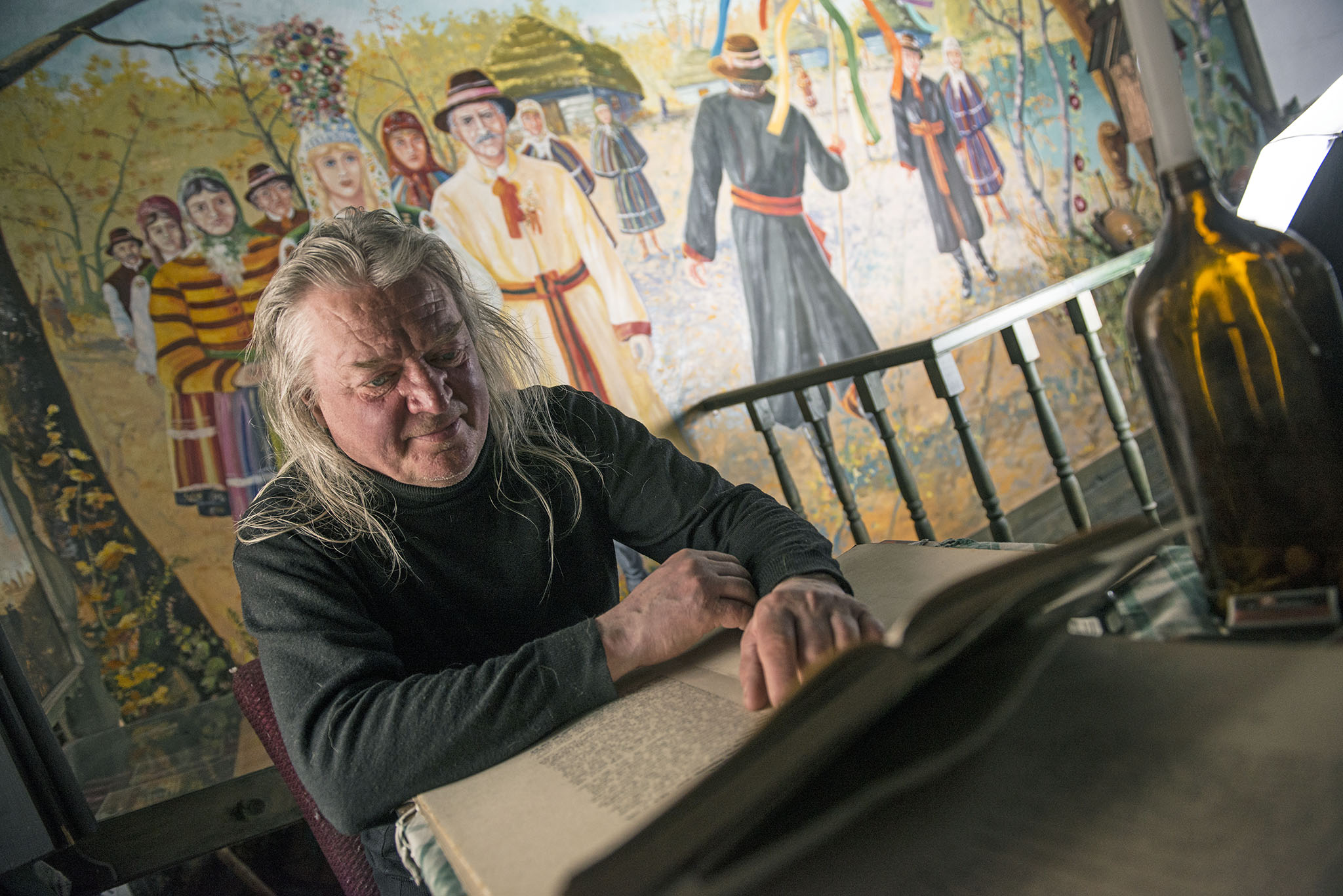 Tadeusz Modrzejewski, Museum of Literature in Bielsko-Biala, 2014